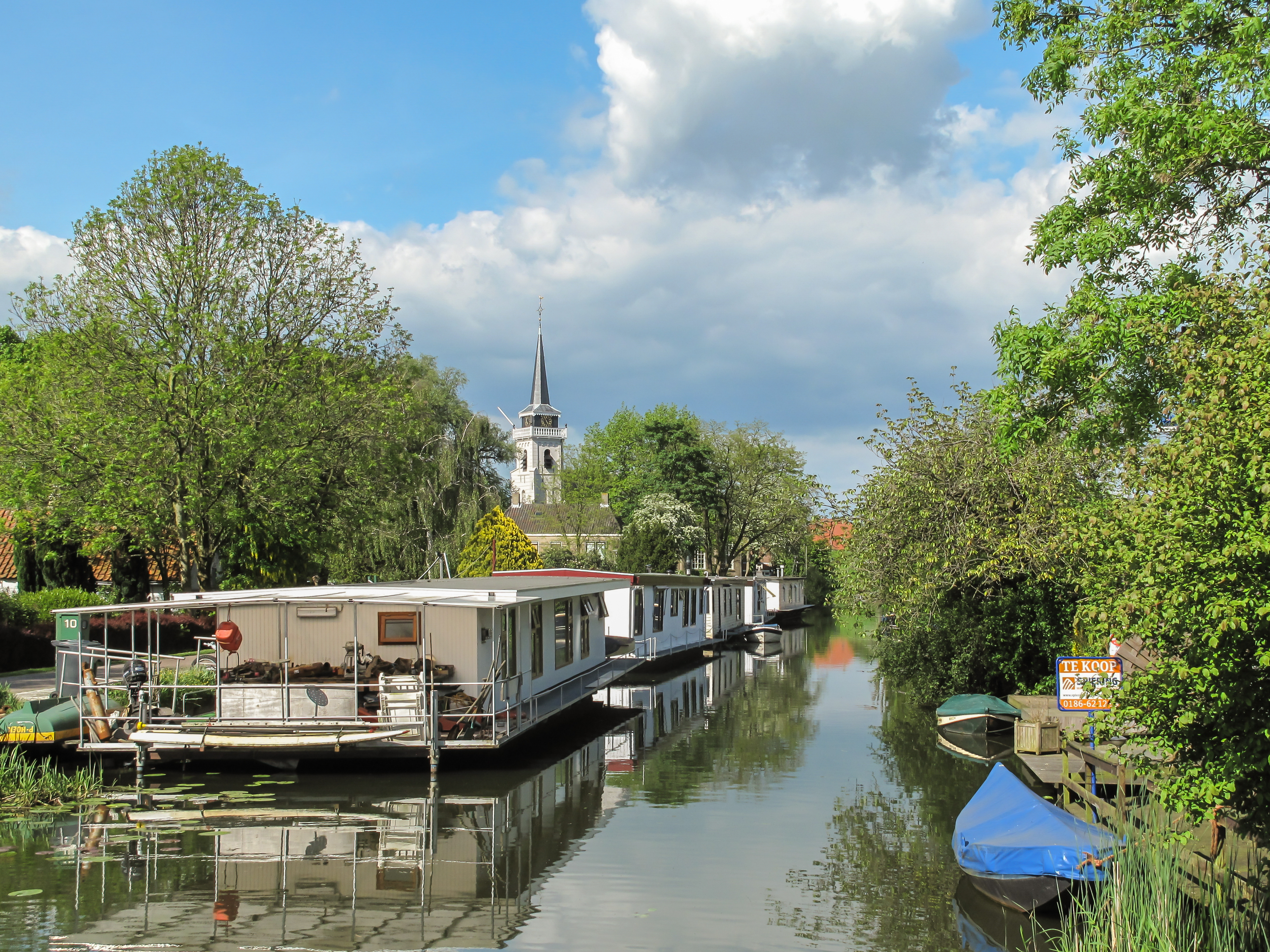 Puttershoek, view to a canal and church in the background